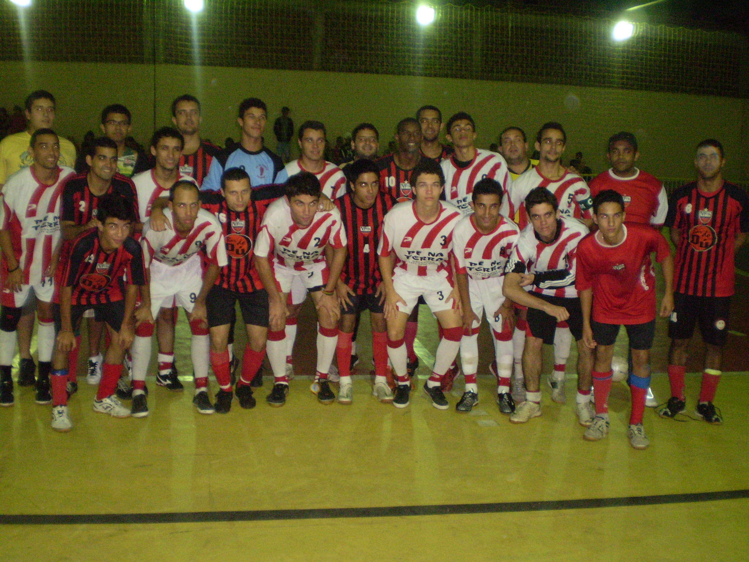 Vilense, Regional Champion in the city of Serra da Saudade 2010